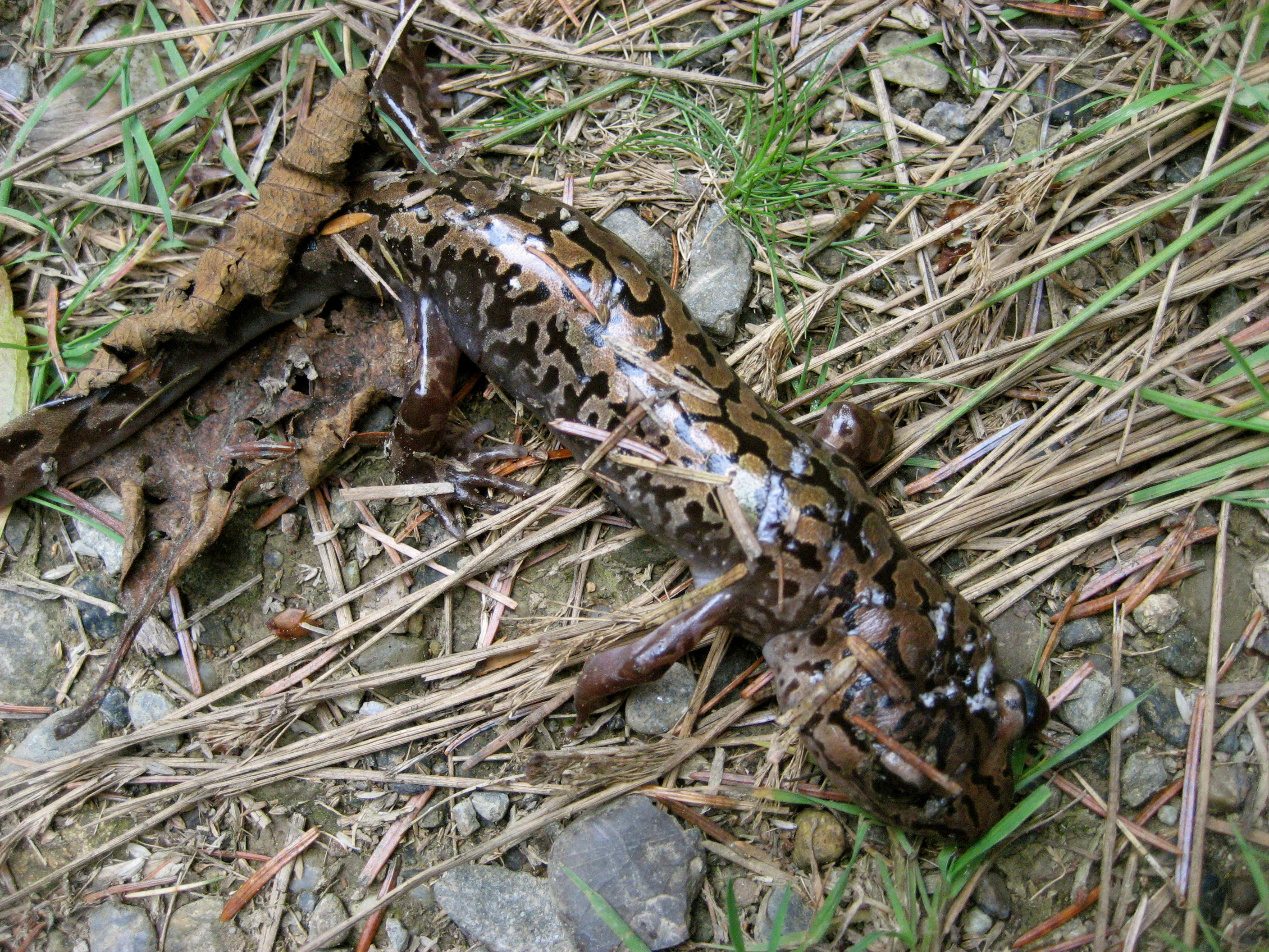 Dicamptodon ensatus, the California giant salamander in Redwood National Park